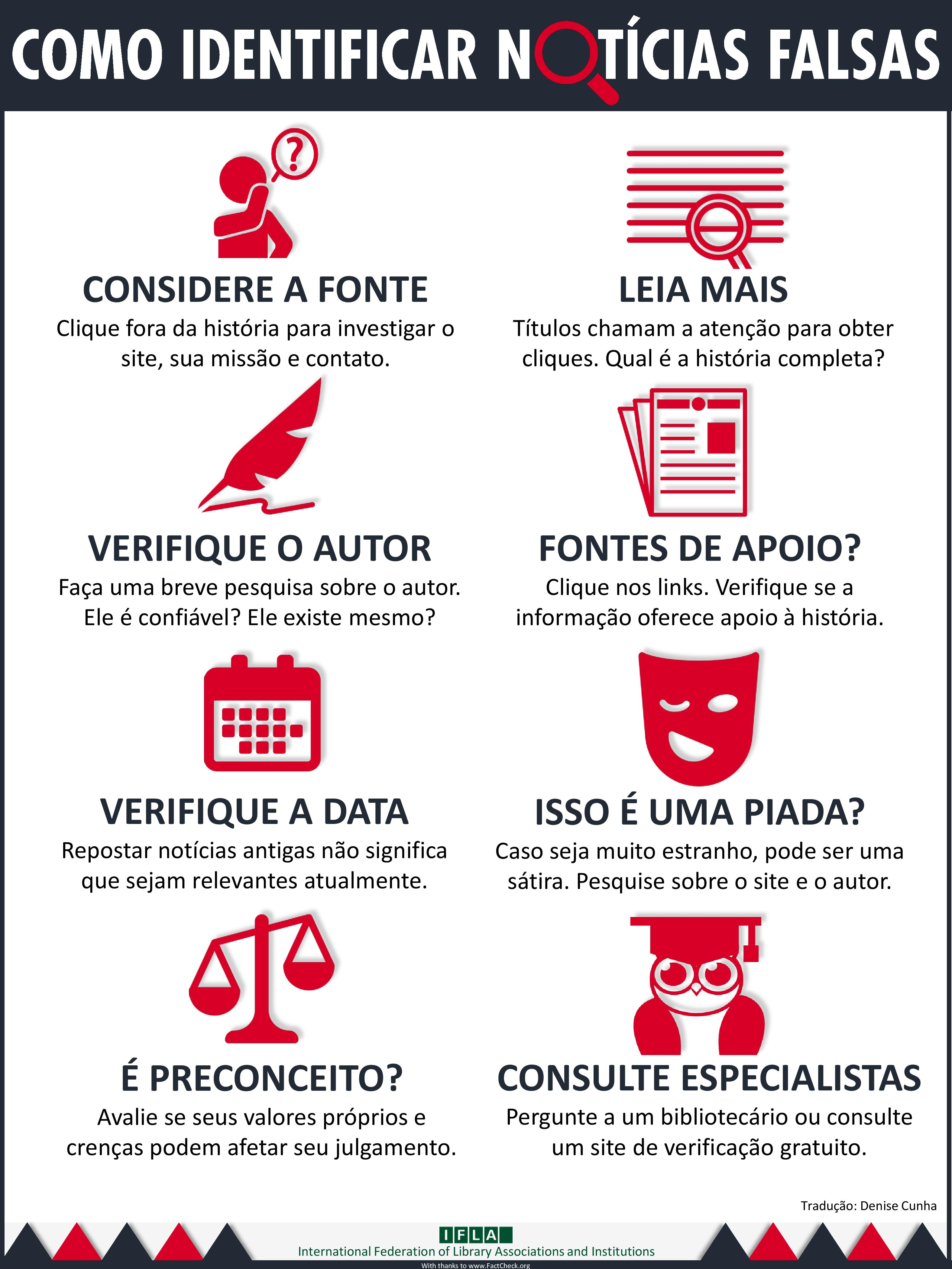 Portuguese translation of IFLA infographic based on ’s 2016 article "How to Spot Fake News" in JPG format.